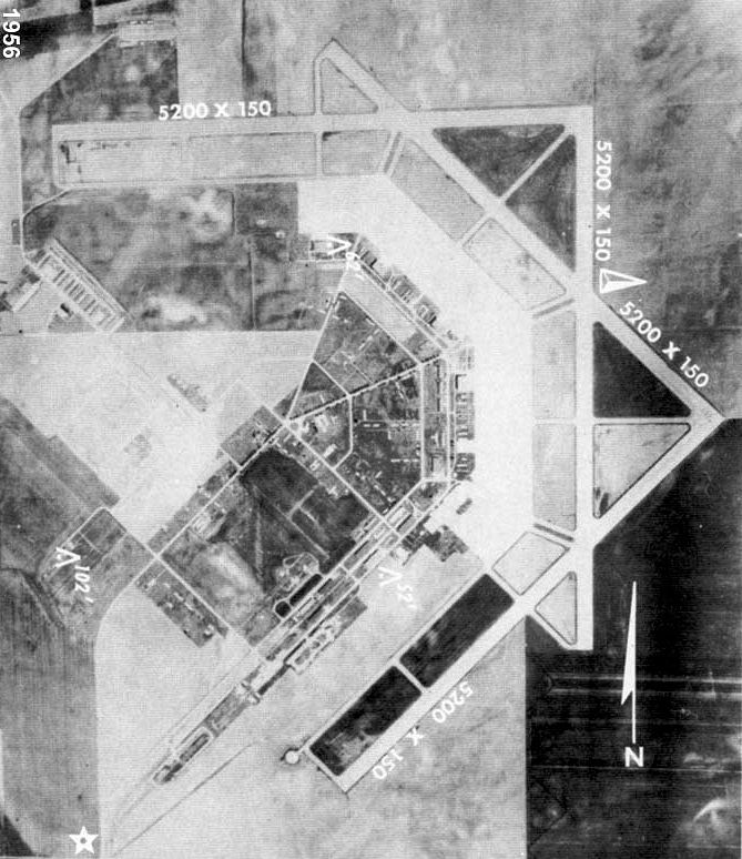 George Army Airfield, Illinois